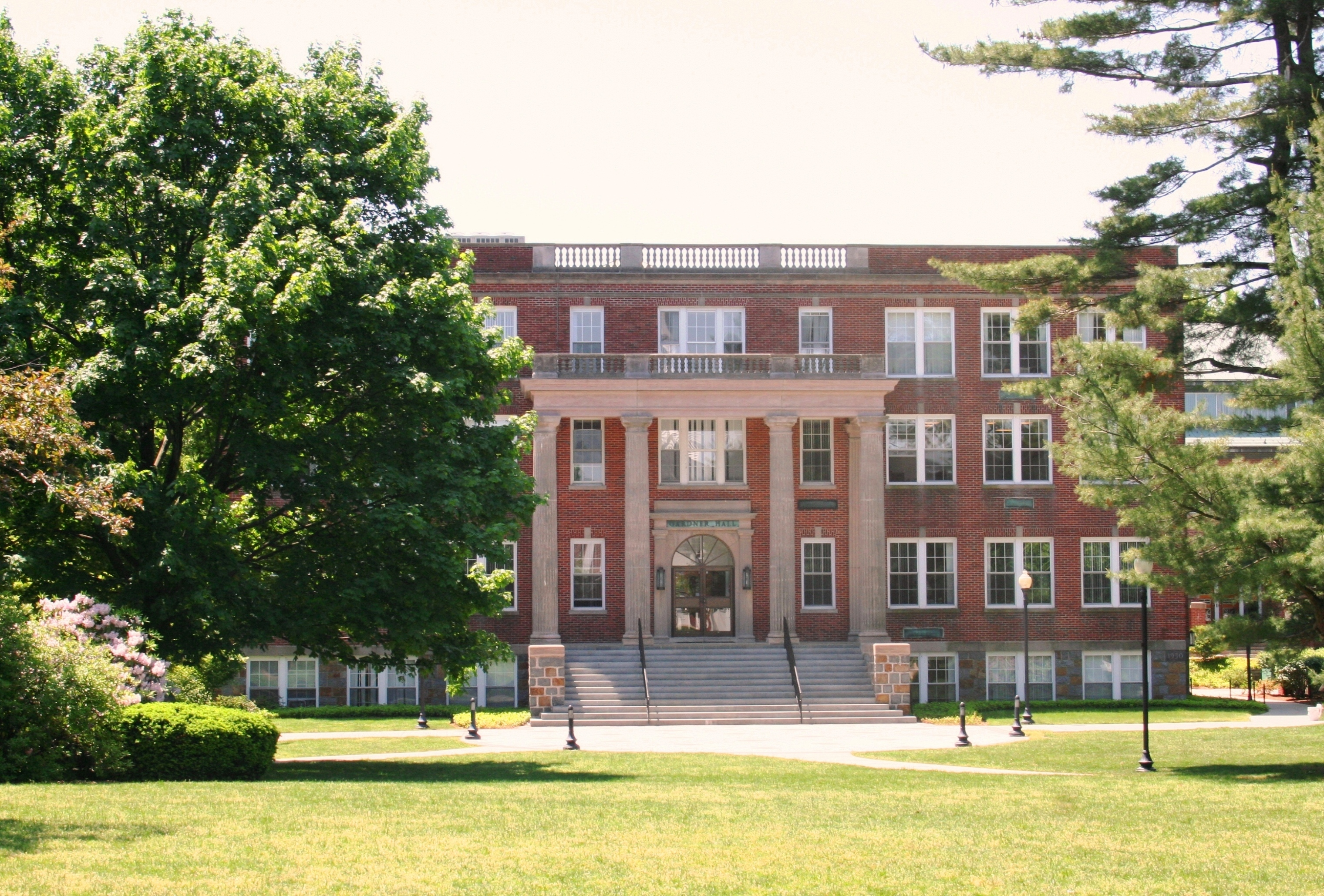 Gardner Hall, formerly the Fowler Administration Building, the administration building on the campus of the Eastern Nazarene College in Wollaston Park (Quincy, Massachusetts). Gardner Hall, Eastern Nazarene College administrative building